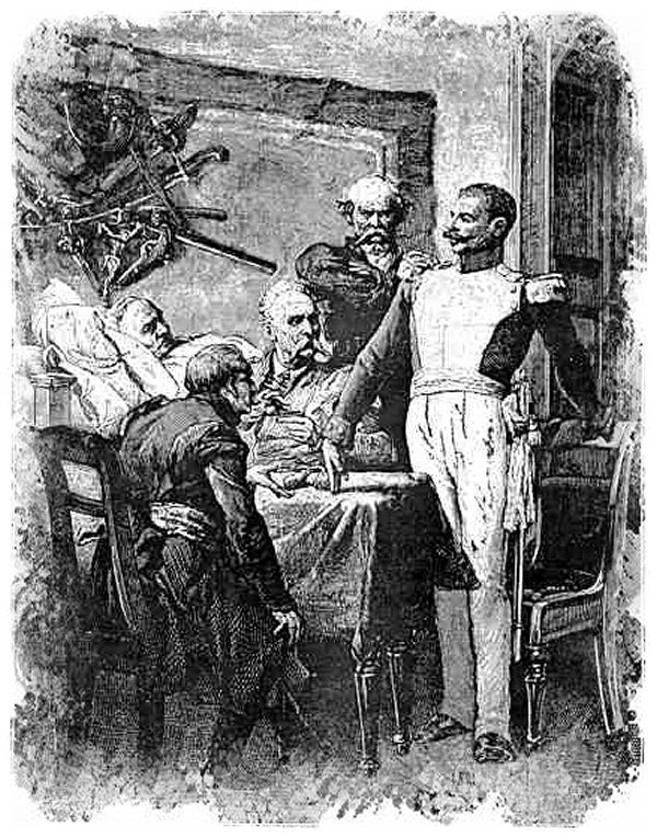 Illustration of Pan Tadeusz, Book 10